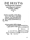 De Historia Stirpium Commentarii Insignes, title page, 1542